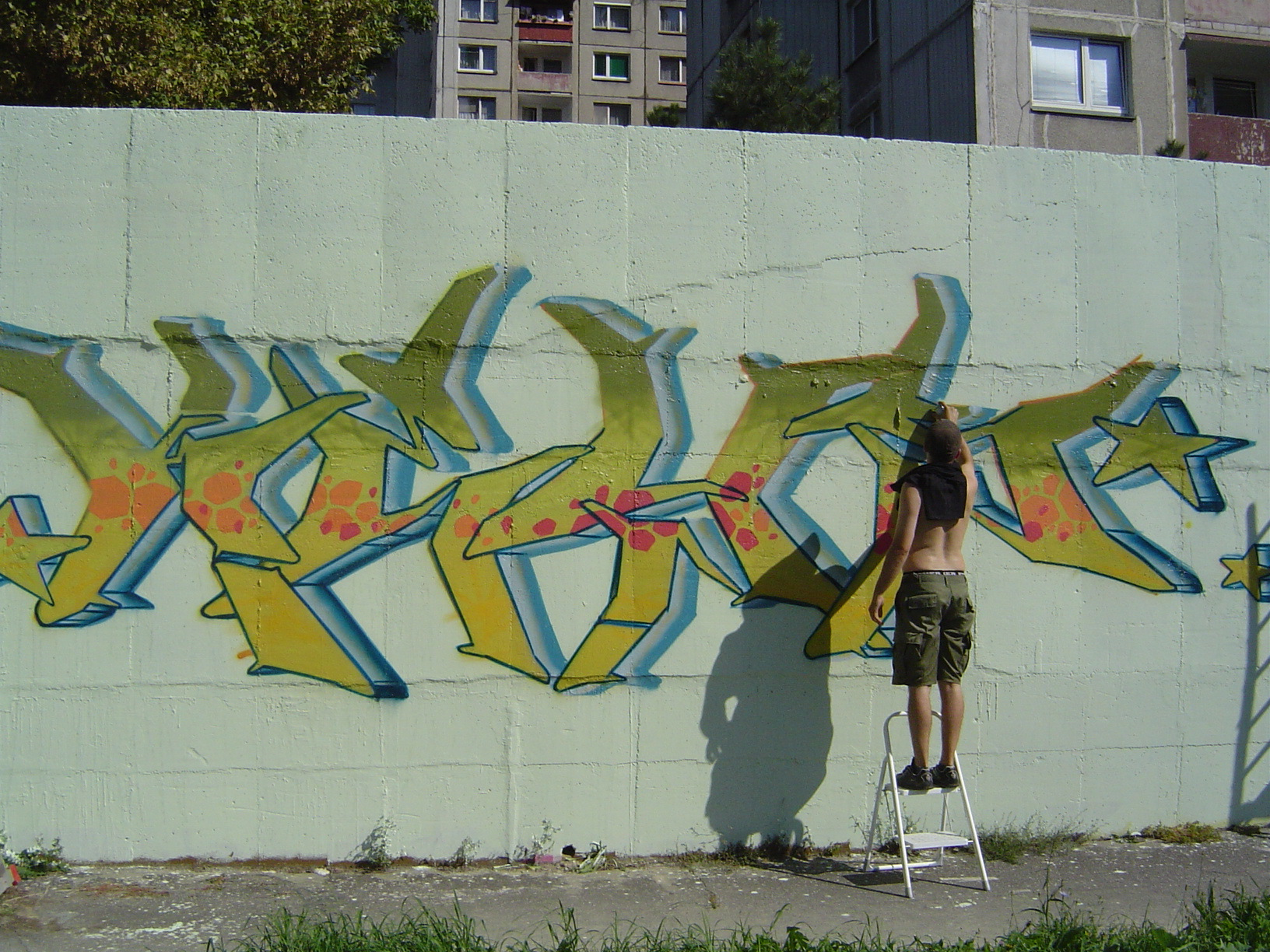 graffiti artist is workin on his piece, slovakia